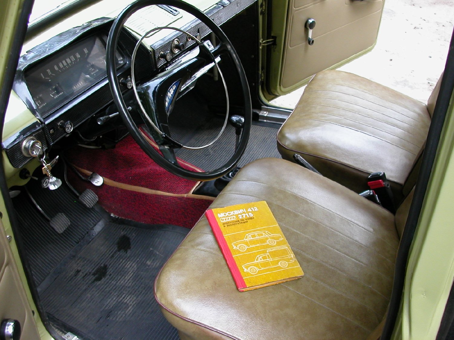 Interior view of 1974 Moskvitch 412IE, Izhevsk built